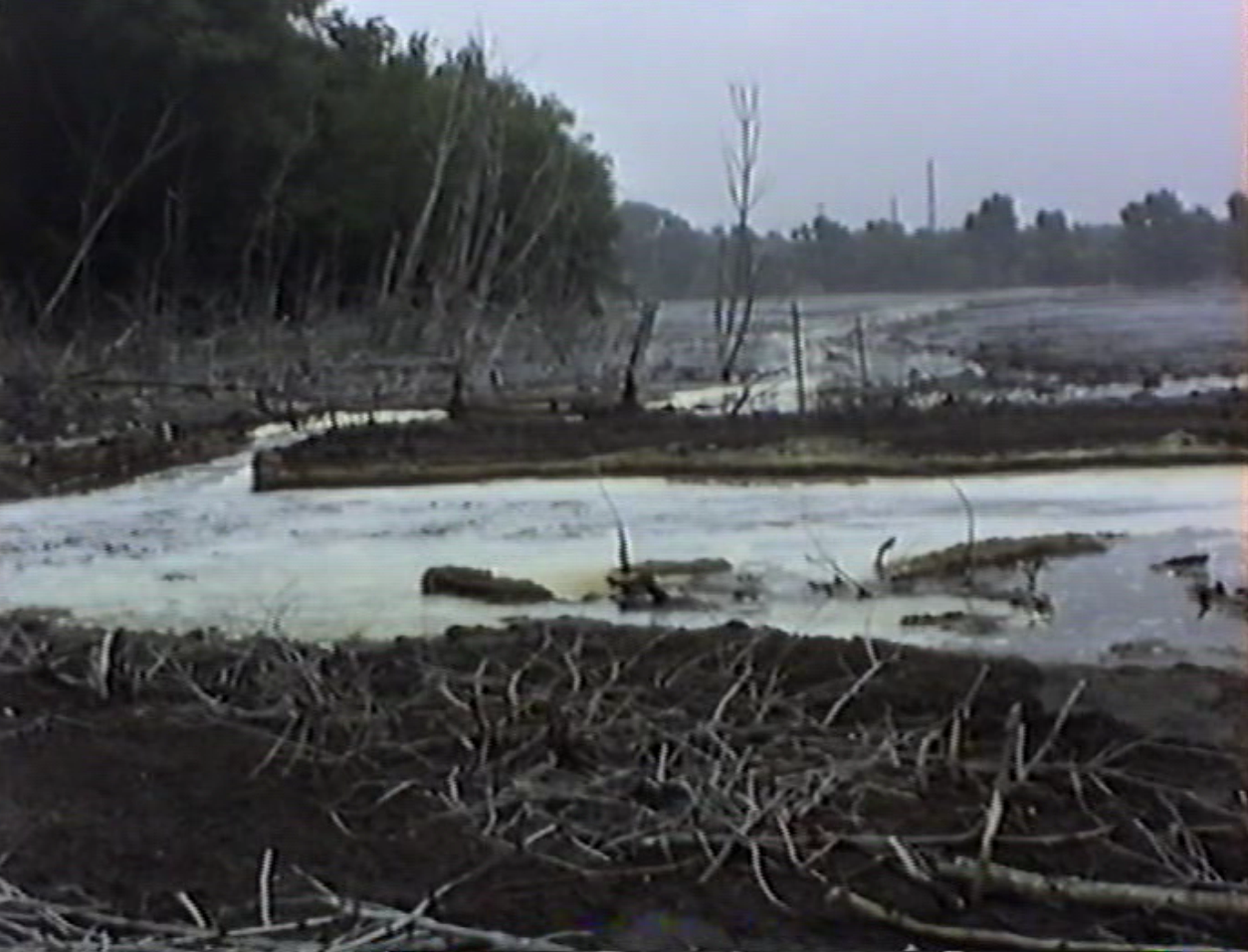 Inlet of Orwo Filmfabrik's industrial effluent into so-called Silbersee, Bitterfeld, then German Democratic Republic (1988)